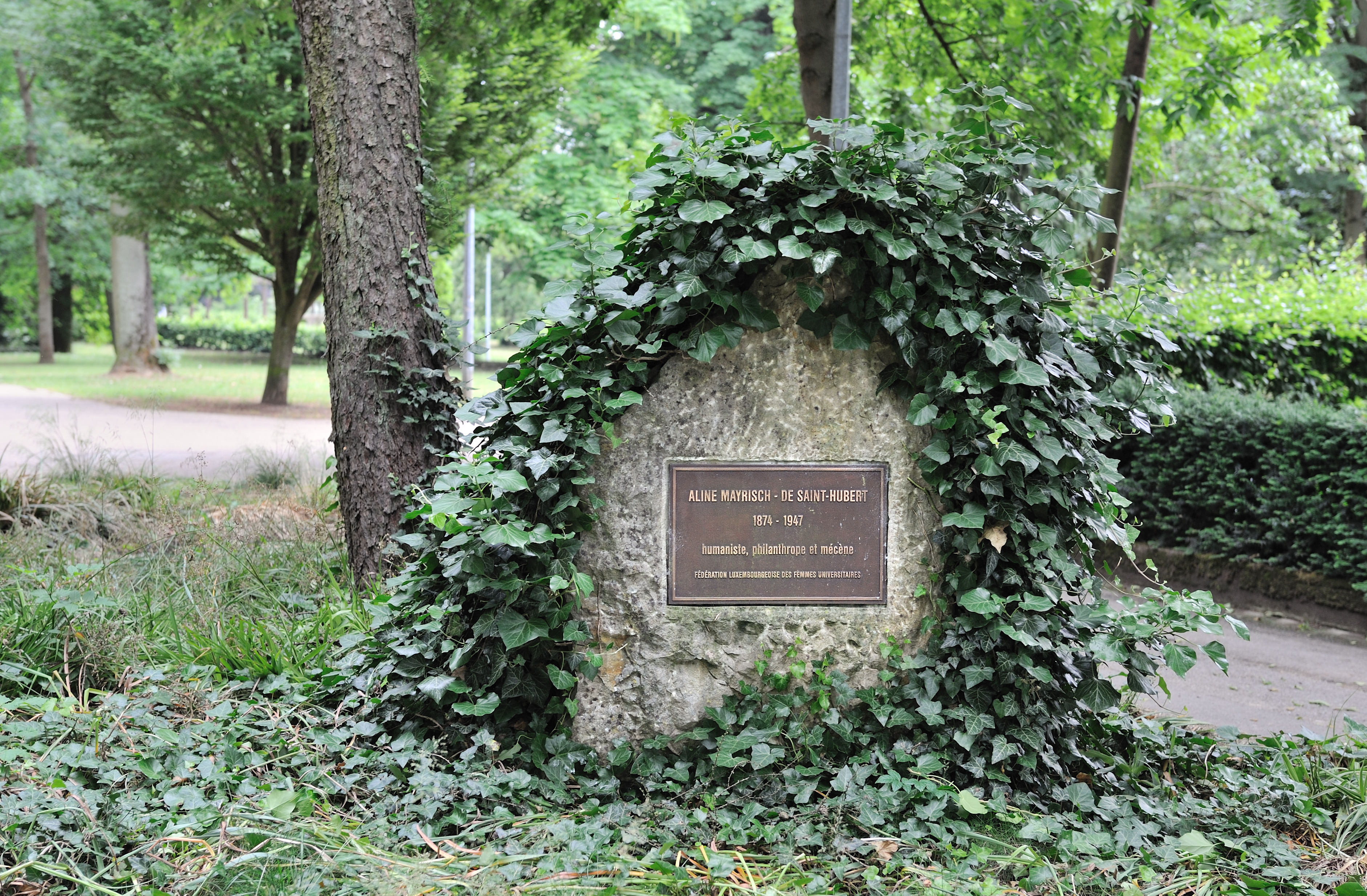 Luxembourg City, public garden: monument commemorating Aline Mayrisch-de Saint-Hubert (1874-1947).